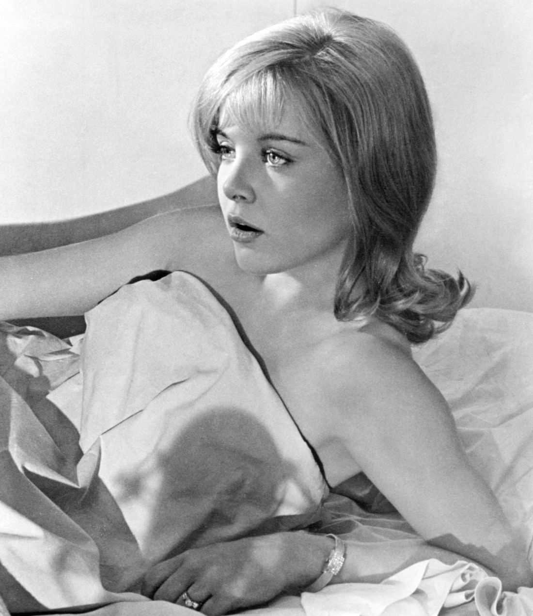 Photo of actress Sue Lyon from the 1967 film Tony Rome.